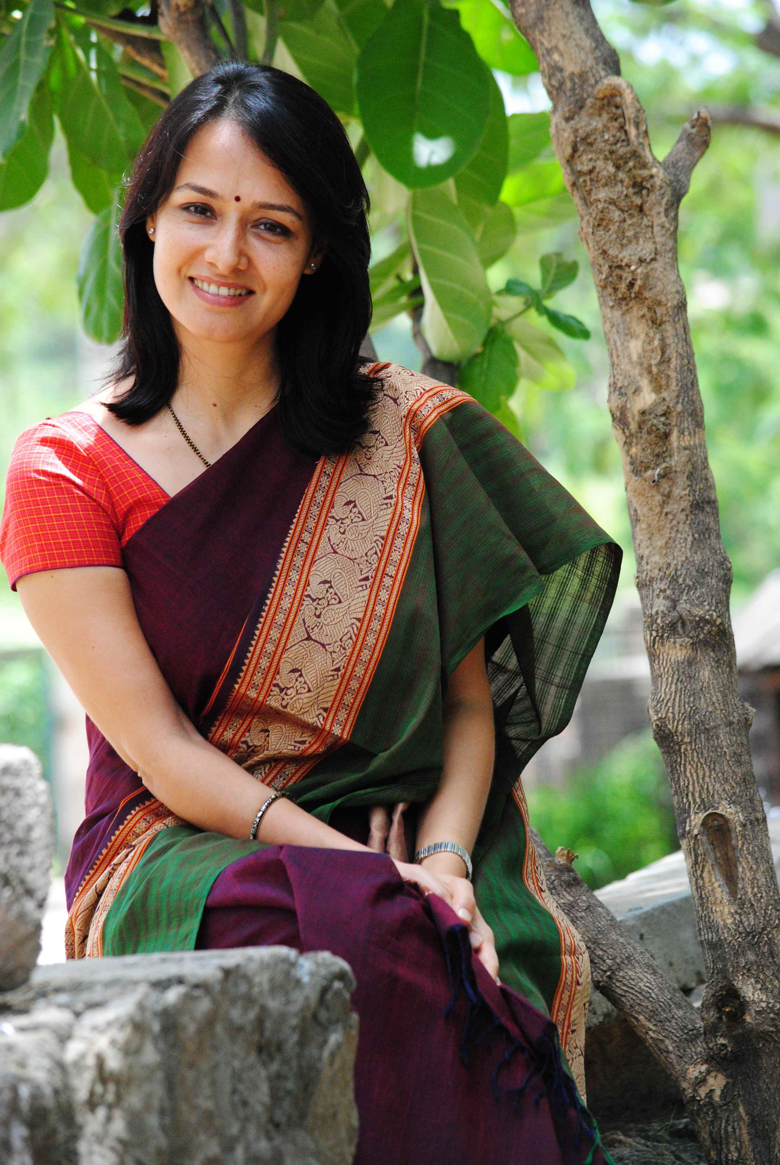 Amala Akkineni